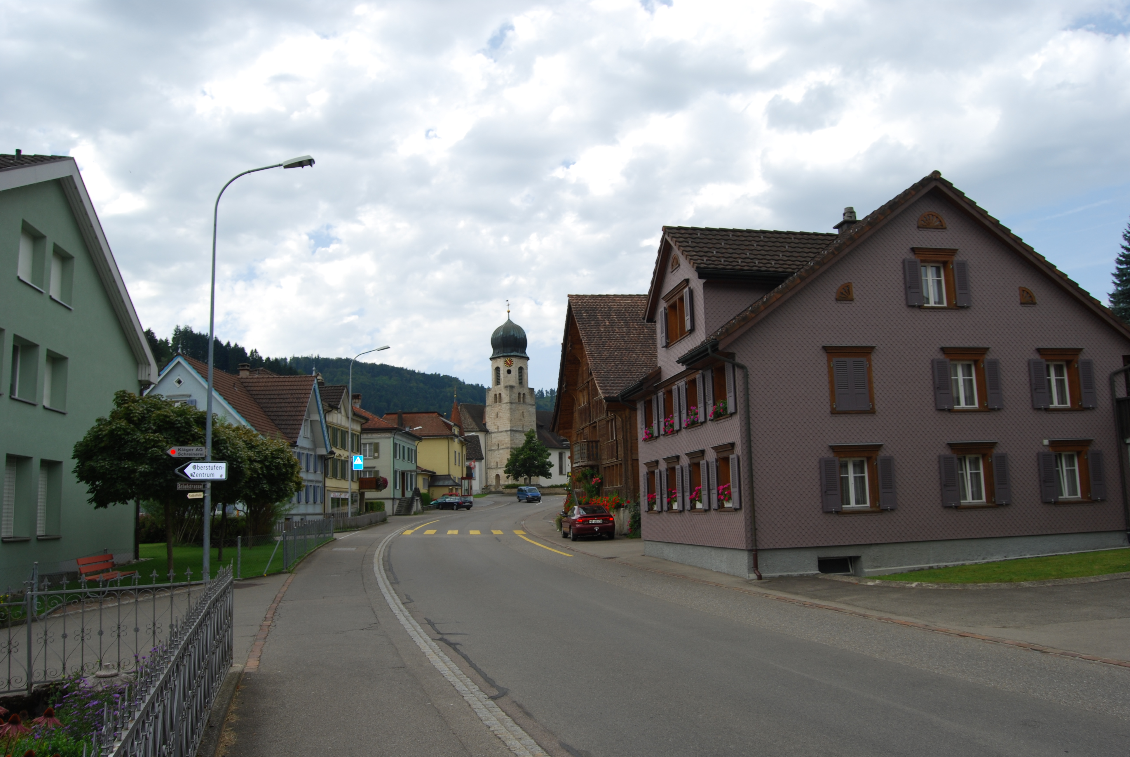 Mosnang, canton of St. Gallen, Switzerland